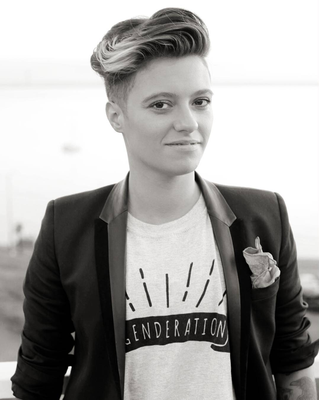 Jack Monroe, English writer, journalist and campaigner, in 2015.